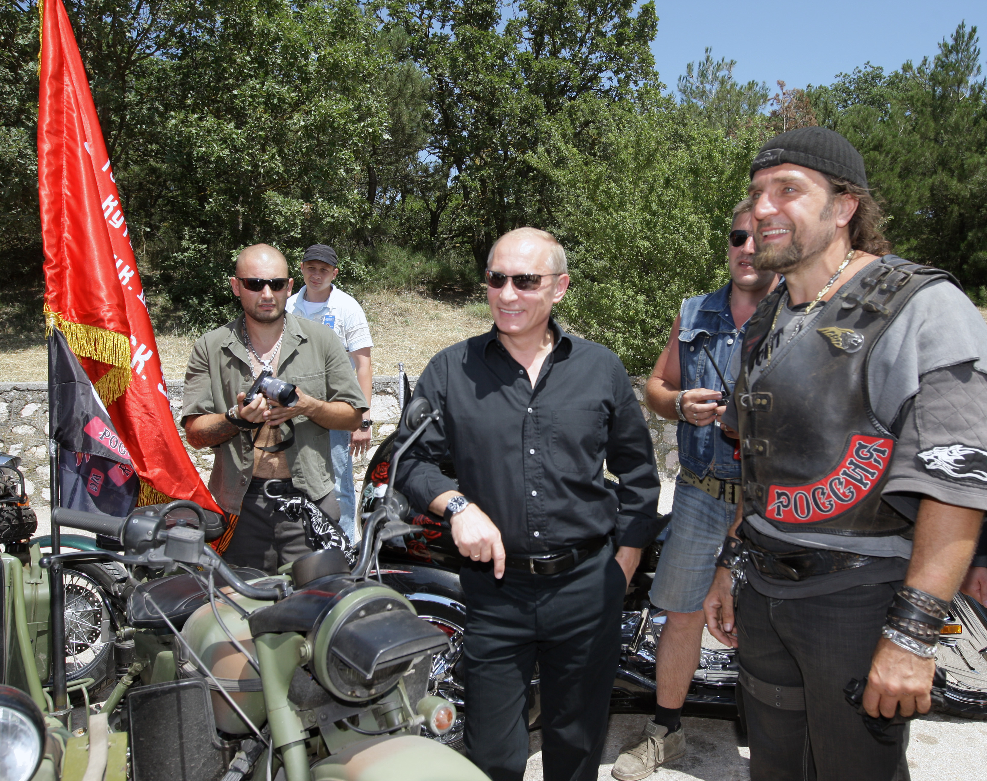 Vladimir Putin with Alexander Zaldostanov, aka "The Surgeon", the head of the "Night Wolves" biker club, at the 14th International Biker Rally in Sevastopol, Crimea, 24t July 2010. The rally brought together bikers from Belarus, the Ukraine, Russia, Kazakhstan, Lithuania, Latvia, Germany, Slovakia, Bulgaria, Romania, Poland, Sweden, the Czech Republic, Serbia, the USA, and Israel.